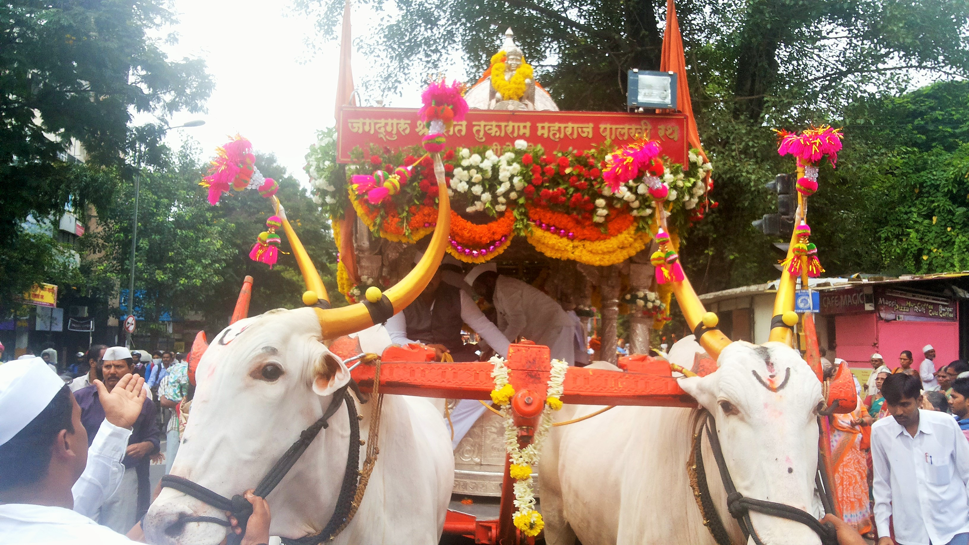 Tukaram Maharaj palkhi (palanquin) Rath